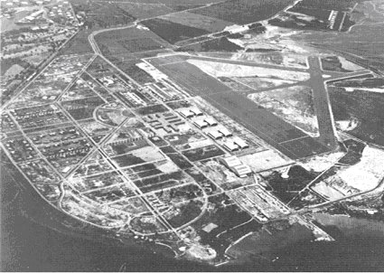 Aerial photograph of Hickam Airfield, Hawaii.